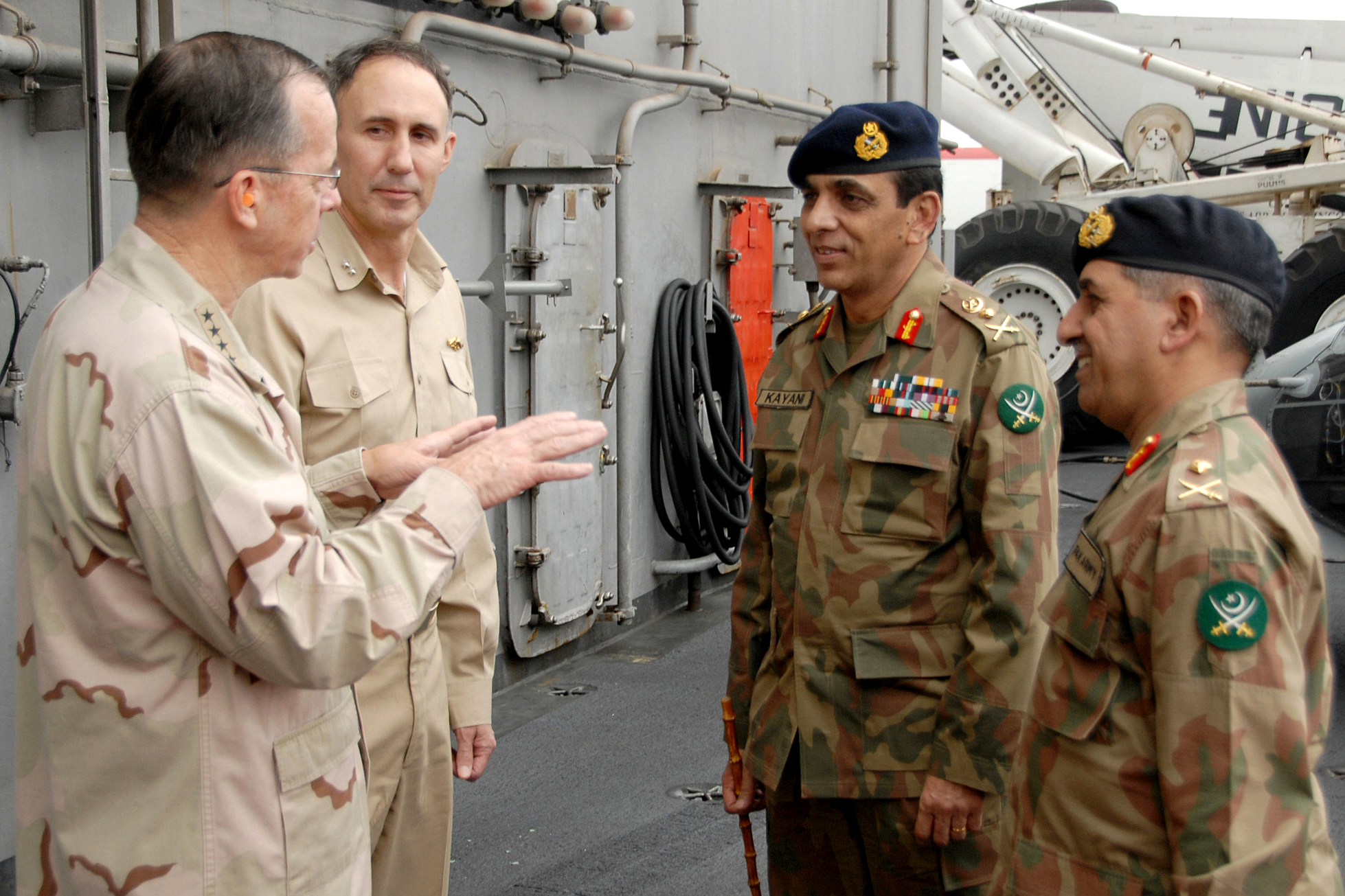 Taken from U.S. Department of Defense[1]: "From Left: U.S. Navy Adm. Mike Mullen, chairman of the Joint Chiefs of Staff, and U.S. Navy Rear Adm. Scott Van Buskirk, commander of Carrier Strike Group 9, talk with Pakistani Army Gen. Ashfaq Kayani, chief of army staff, and Pakistani Army Major Gen. Ahmad Shuja Pasha, director general of military operations, on the flight deck aboard USS Abraham Lincoln in the North Arabian Sea. U.S. Navy photo by Petty Officer 1st Class William John Kipp Jr"